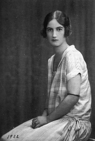 photo of Princess Nina Georgievna of Russia